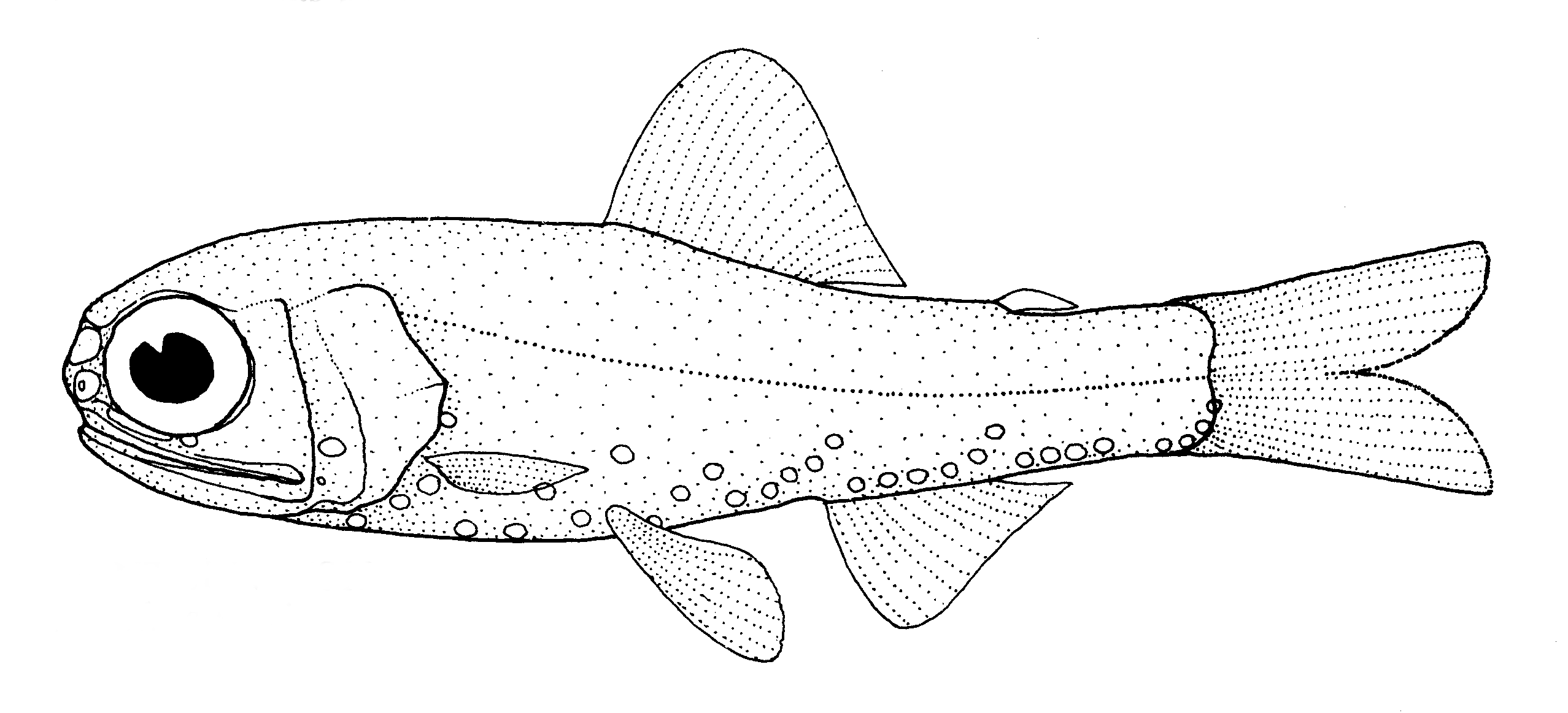 Diaphus holti (no common name)